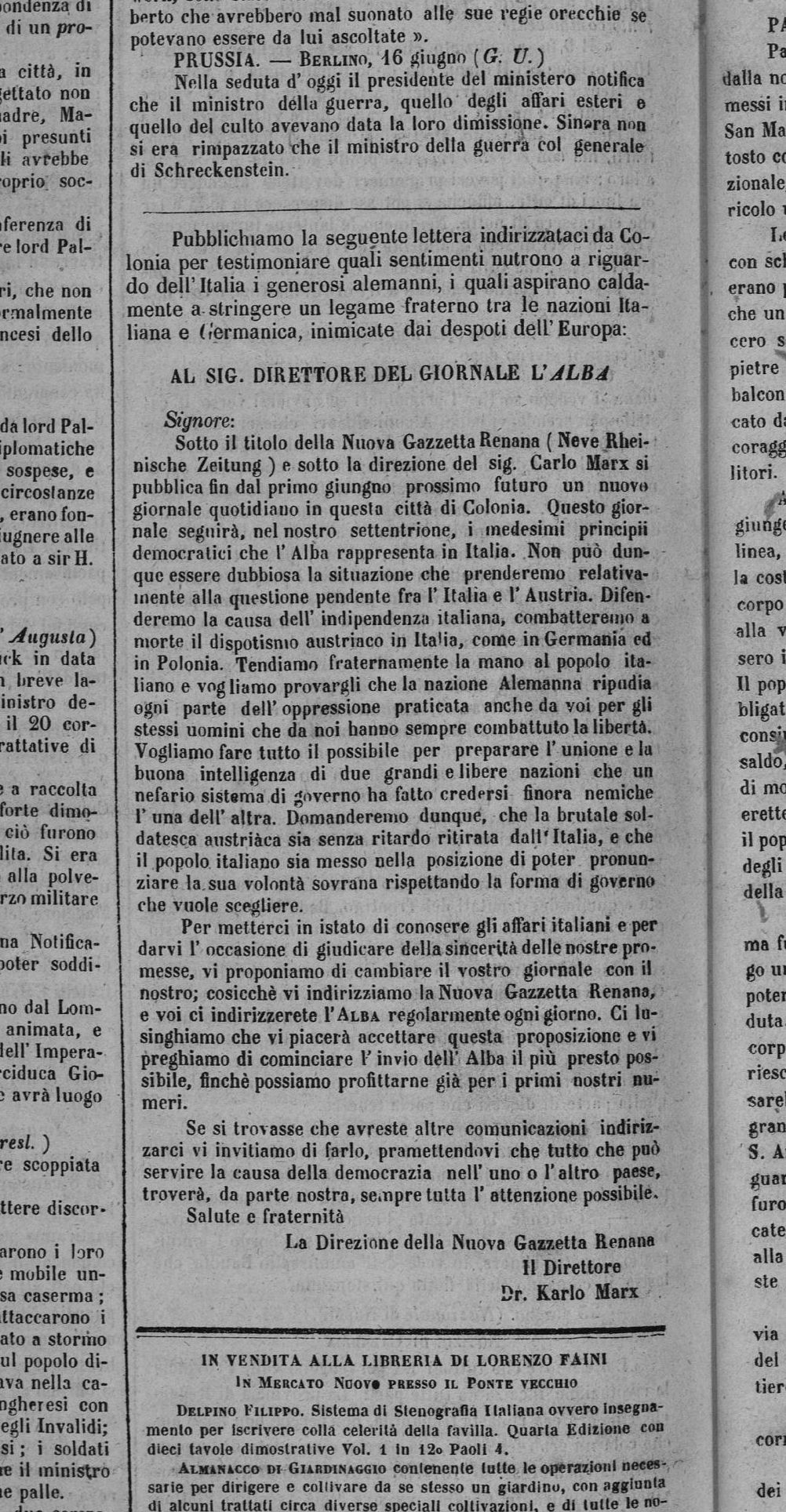 letter written to newspaper L'Alba by Karl Marx in 29 june 1848